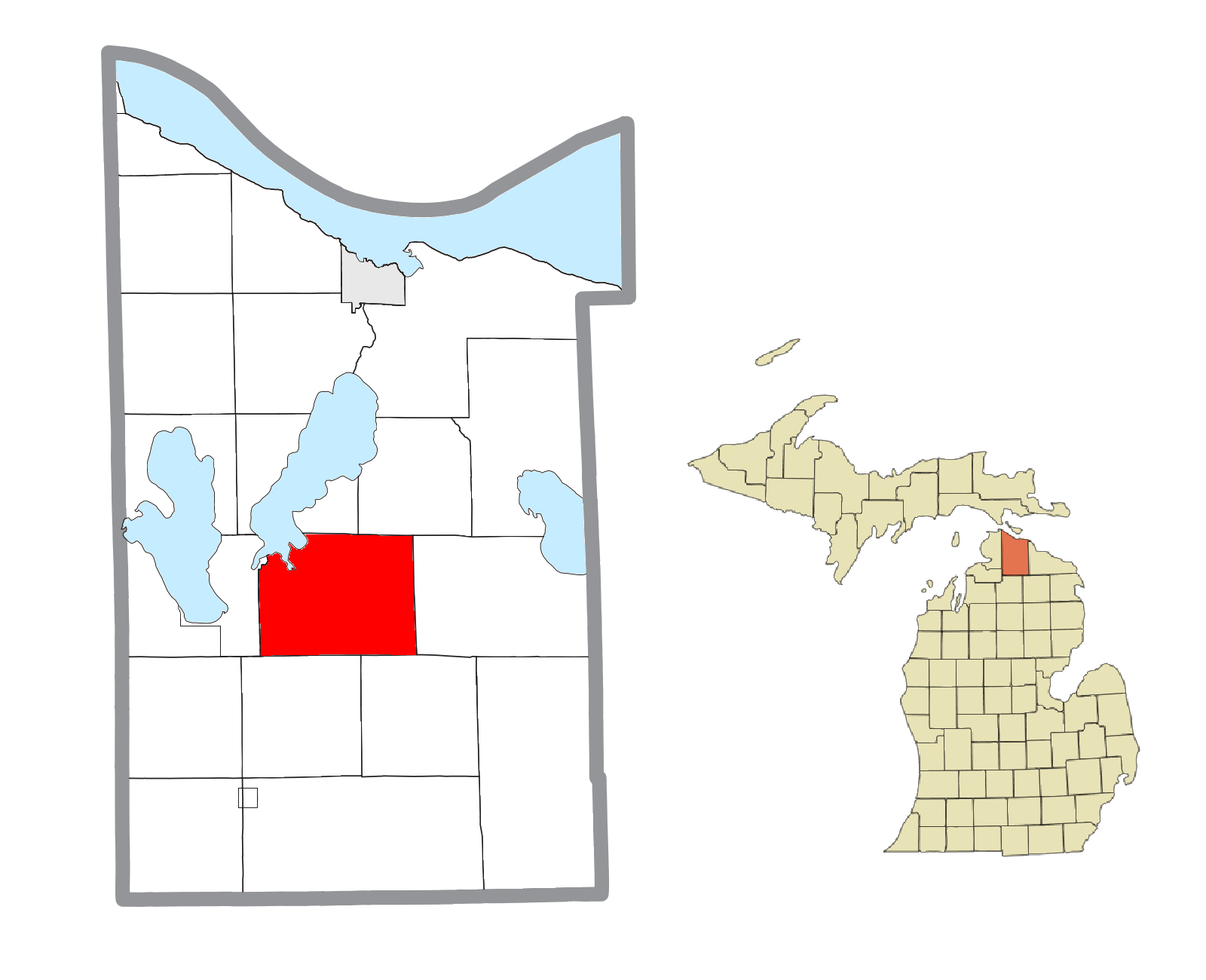 Koehler Township, MI